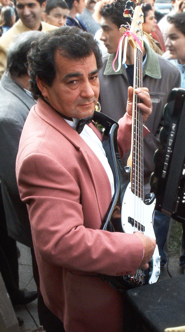 A Romany (Gipsy) bass player at a wedding in Brno (CZ)